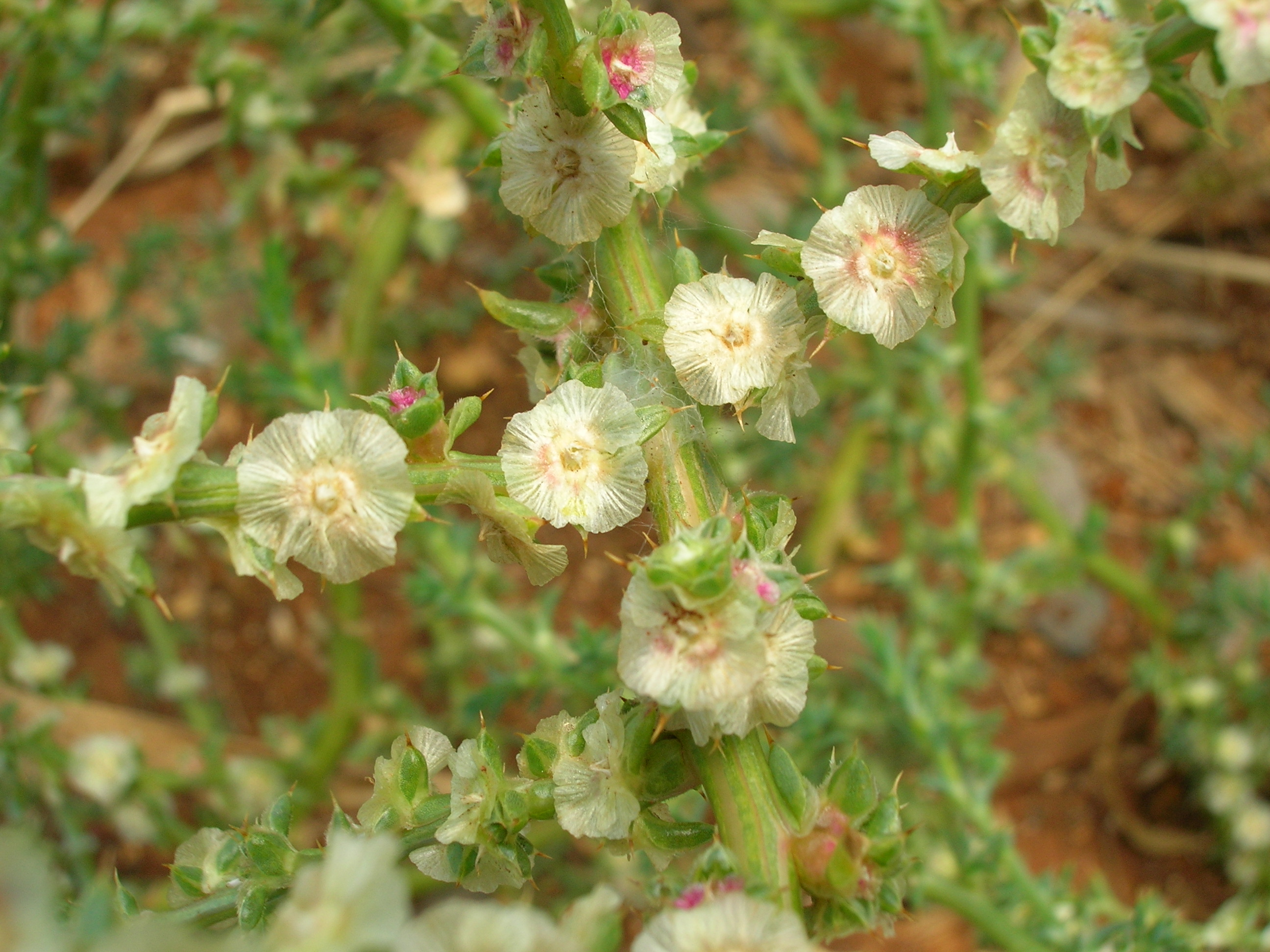 Kali tragus (Syn. Salsola tragus) (flowers). Location: Kahoolawe, Lua Makika